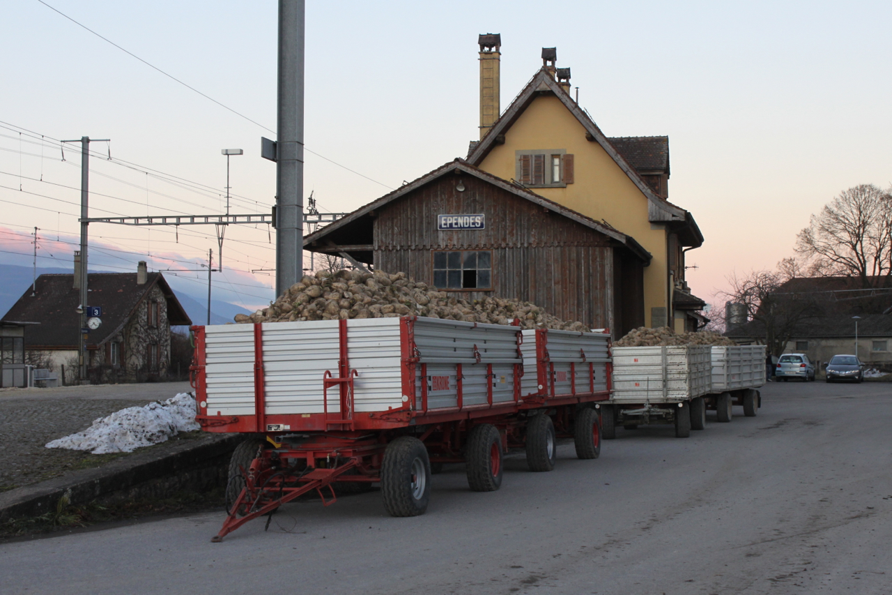 Some trailers loaded with sugar beets at Ependes train station.